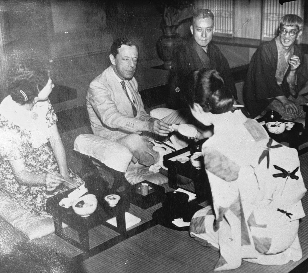 French writer Francis de Croisset (1877-1937) in Japan in 1934.